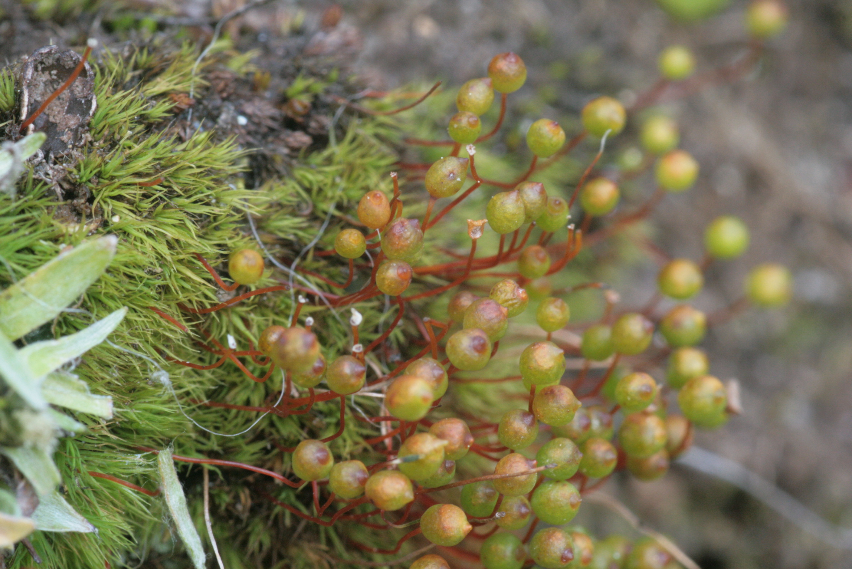 Bartramia ithyphylla